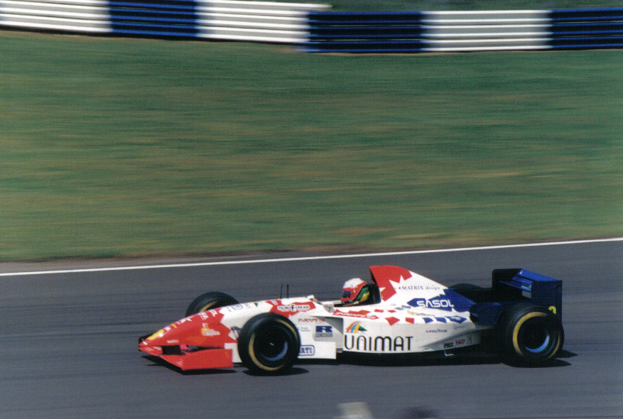 Arrows Hart FA16, Yep Mad Max really was a grand prix driver before he went to the USA.